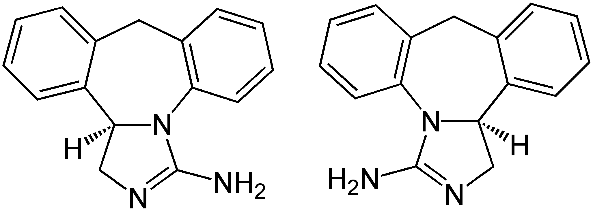 (±)-Epinastine_Enantiomers_Stuctural_Formulae